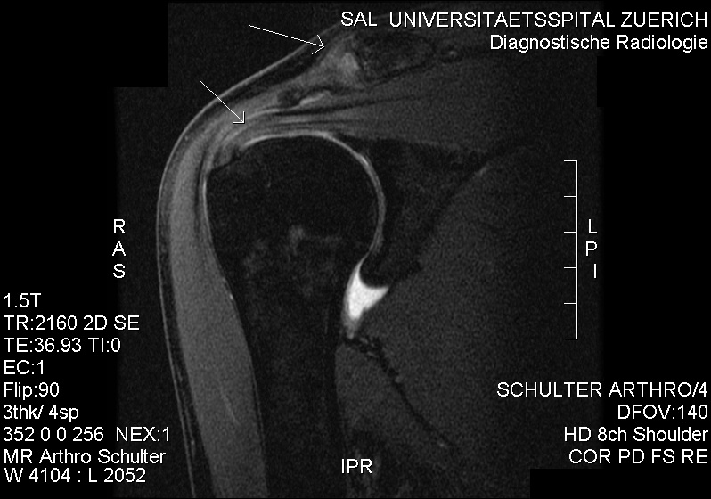 Subacromial impingement with partial rupture of the supraspinatus tendon. However, no retraction or fatty degeneration of the supraspinatus muscle. Arthrosis of the acromio clavicular joint with capsule hypertrophy.